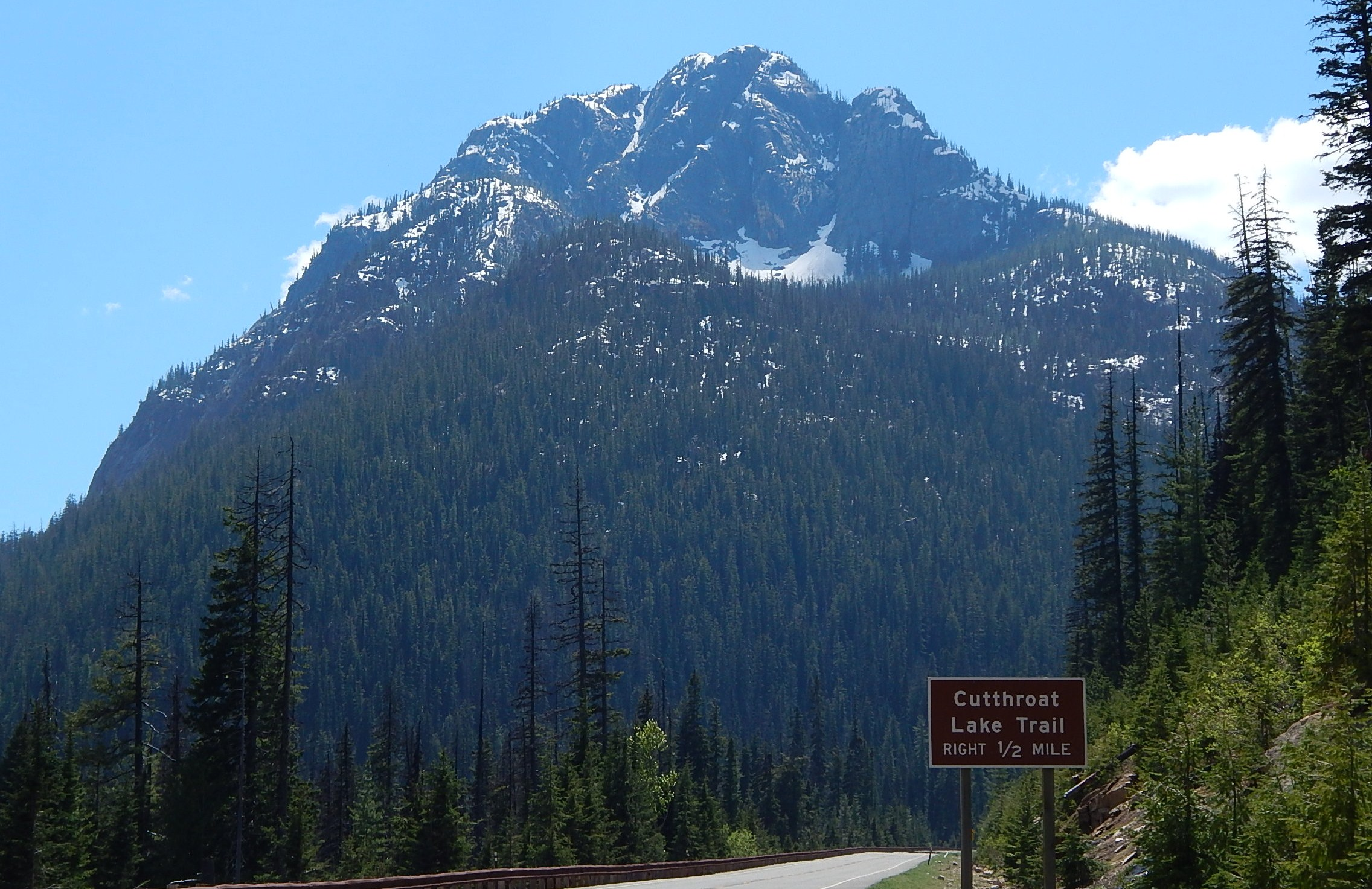 Peak 6978 Constitution Crags in North Cascades as seen from the North Cascades Highway